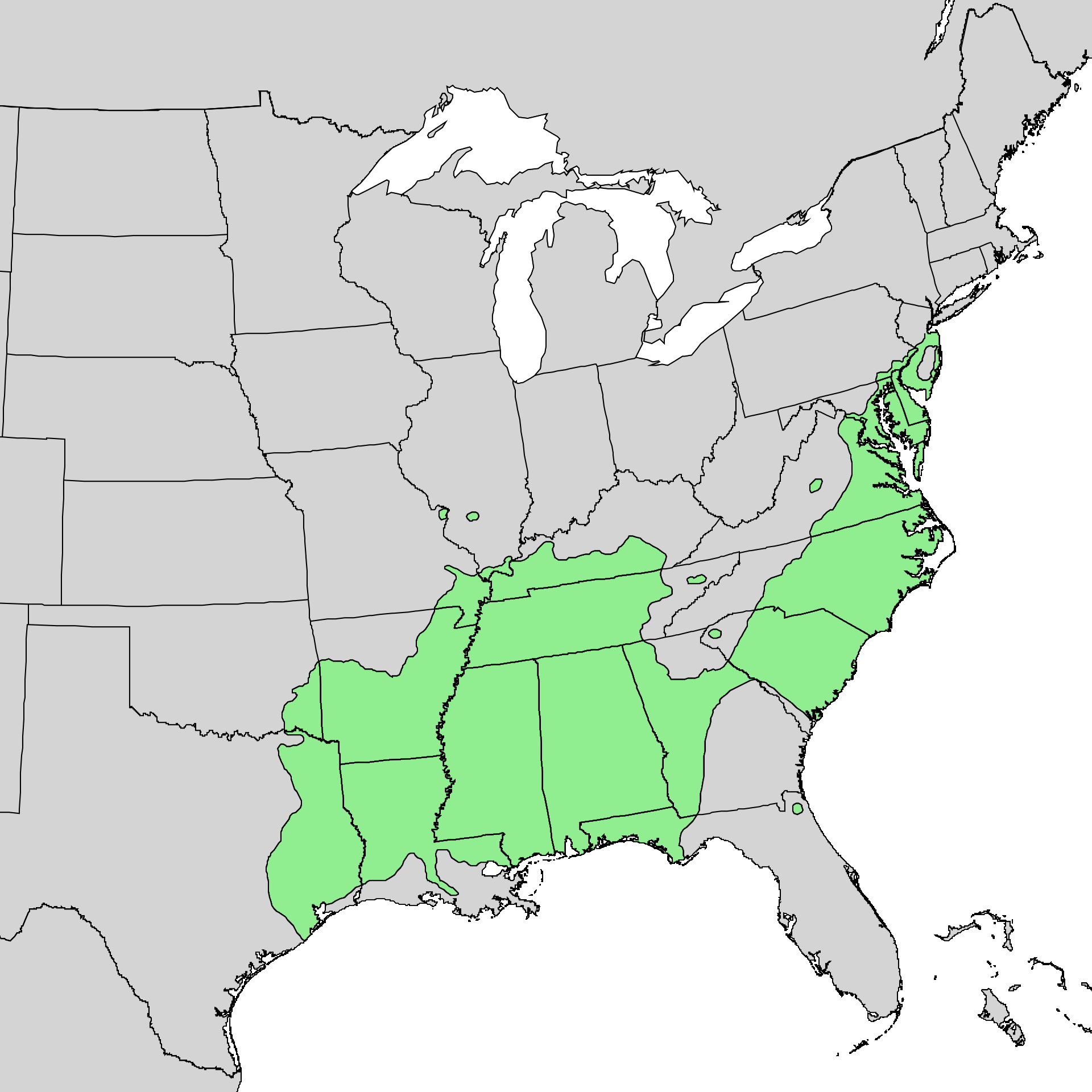 Range map of Quercus phellos